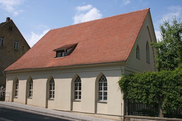 Martin Luther's Birth House: School for the Poor